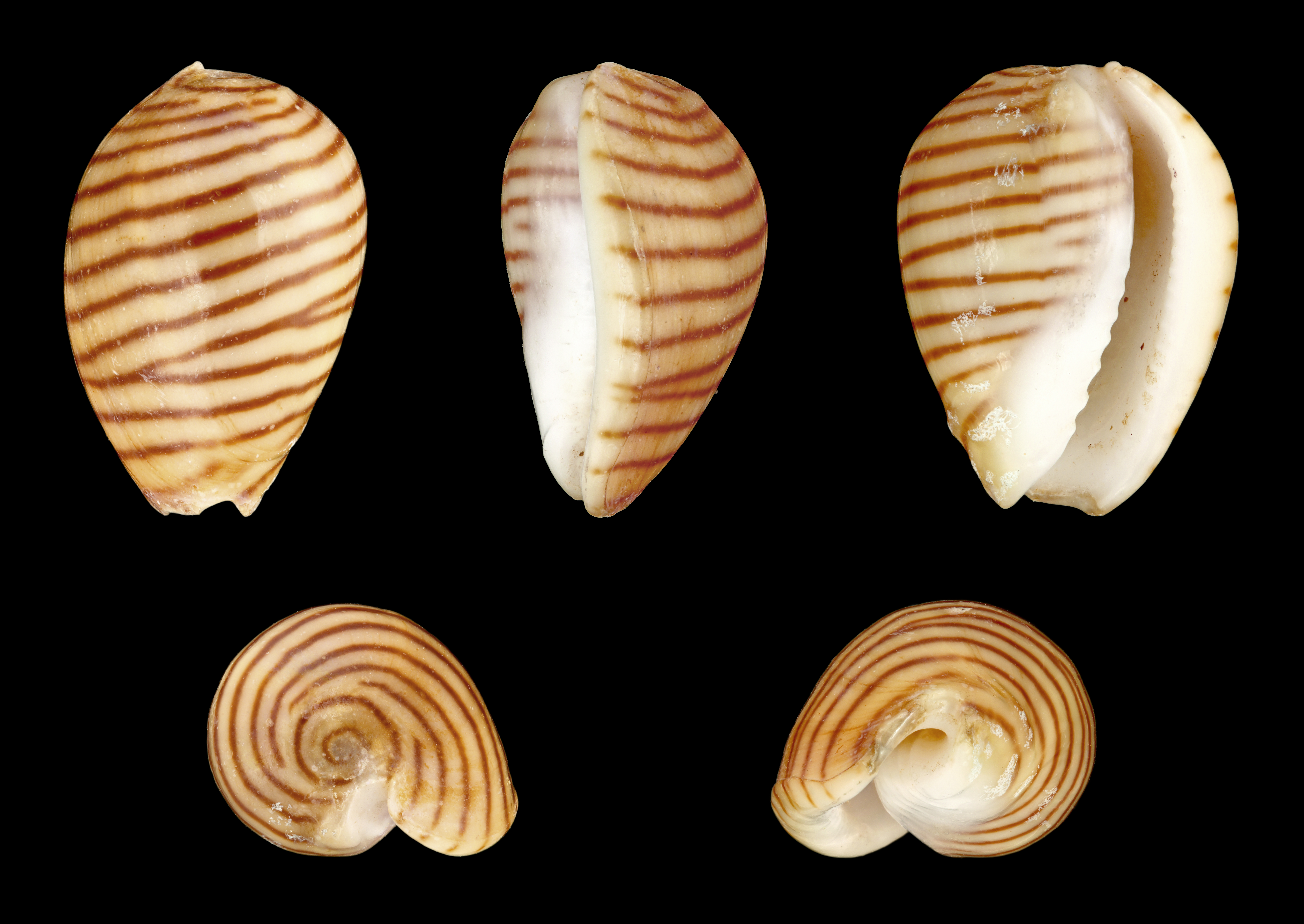 Girdled Marginella; Length 1.9 cm; Originating from the Atlantic coast of West Africa; Shell of own collection, therefore not geocoded. Dorsal, lateral (right side), ventral, back, and front view.